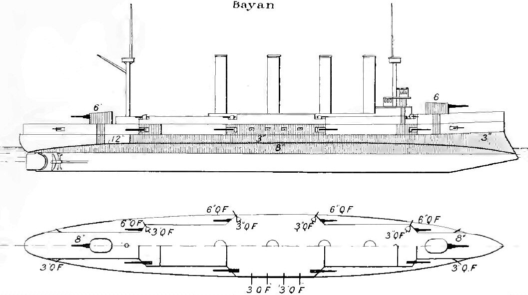 Sketch of the Russian armoured cruisers Bayan (slightly inaccurate).